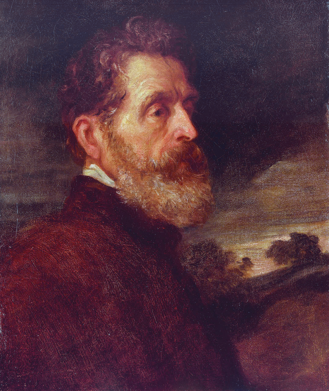 Admiral Henry John Chetwynd (1803-1868), 18th Earl of Shrewsbury oil on canvas 60.9 x 50.3 cm ca. 1865